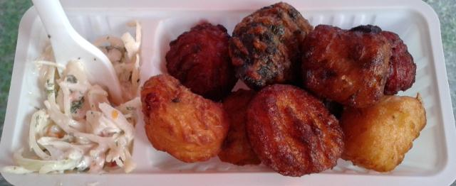 Fried stamppot balls with coleslaw. Commercially marketed as "Stampbal®" in the Netherlands. Quite similar to British dish bubble and squeak.